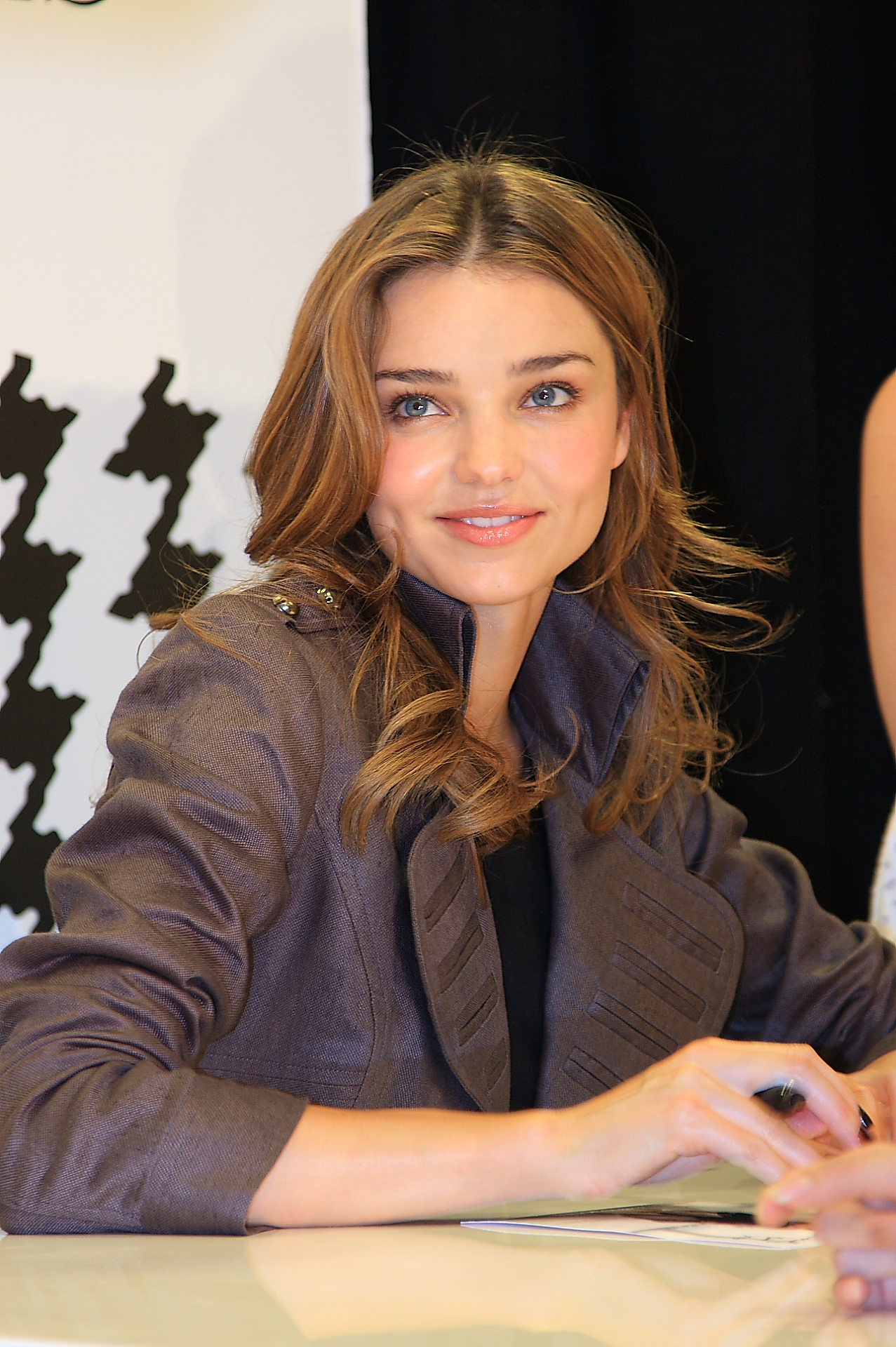 Supermodel Miranda Kerr depicted person: Miranda Kerr (age: 25.84)